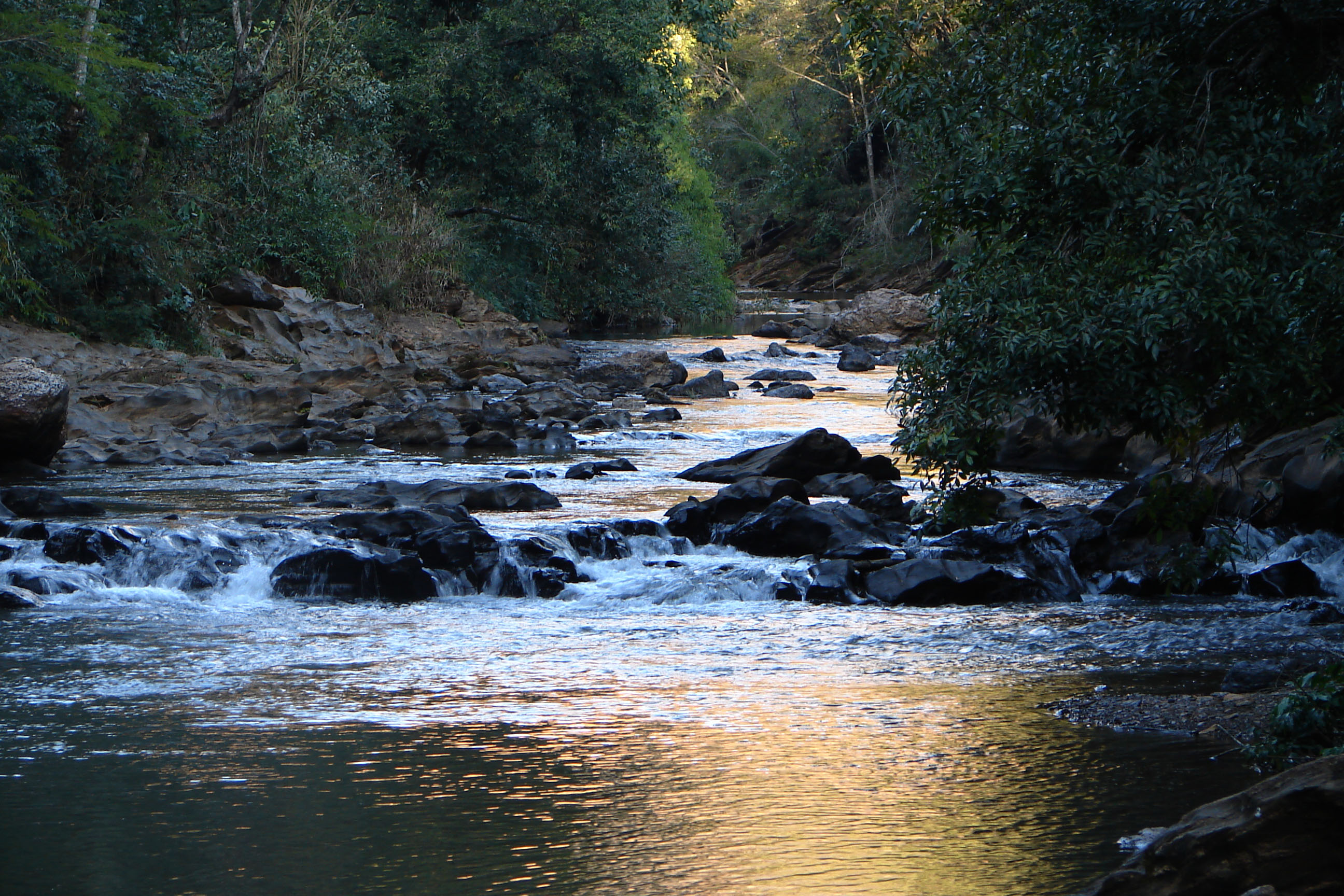 Quedas d'água Raposos